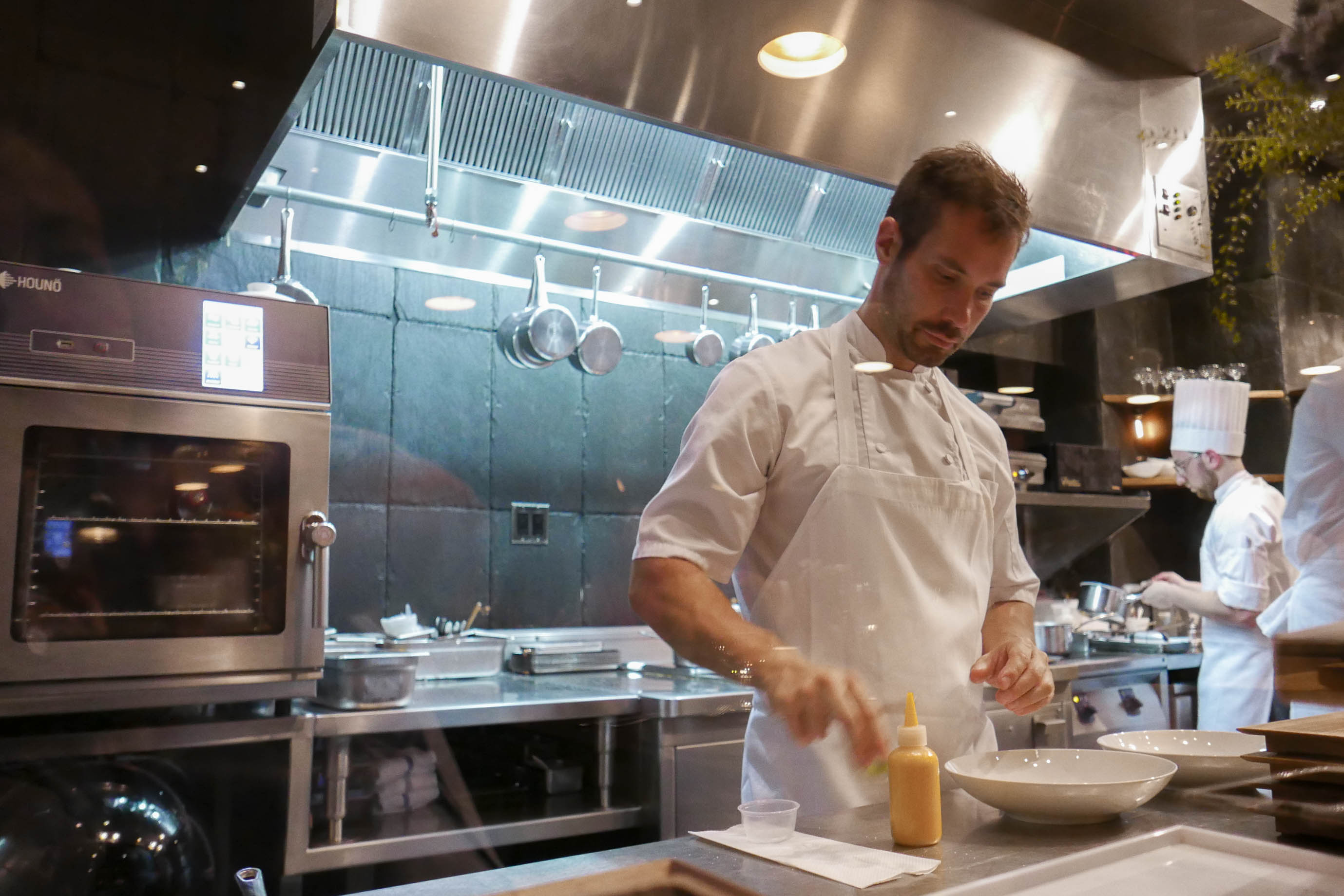 Atera / New York / 07/21/17